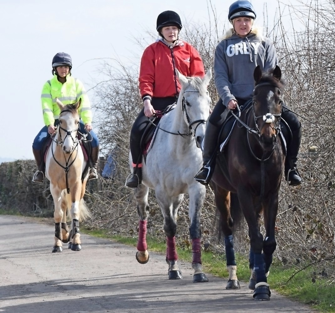 Three horse riders on a Sunday outing in North Somerset, England.